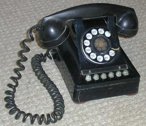 Early 302-based model 464G Western Electric Key Telephone Set